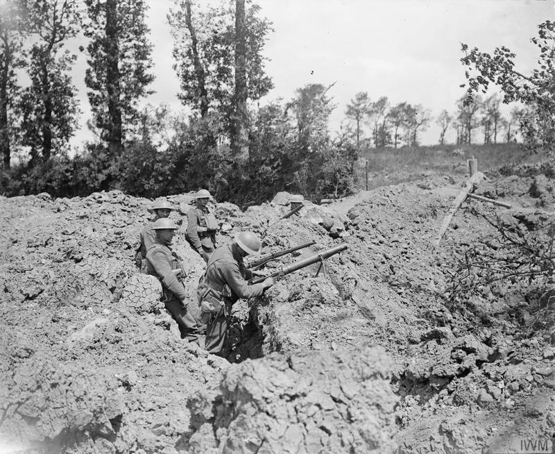 The German Spring Offensive, March-july 1918 12th Battalion Royal Scots manning the lip of a mine crater at Meteren, 23 June 1918.